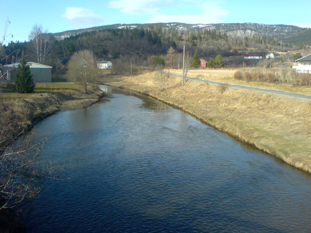 Gråelva in Stjørdal, Norway. The picture is taken from a brigde, not far away from the river's outlet at Stjørdalshalsen.